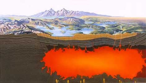 Underlying magma chamber